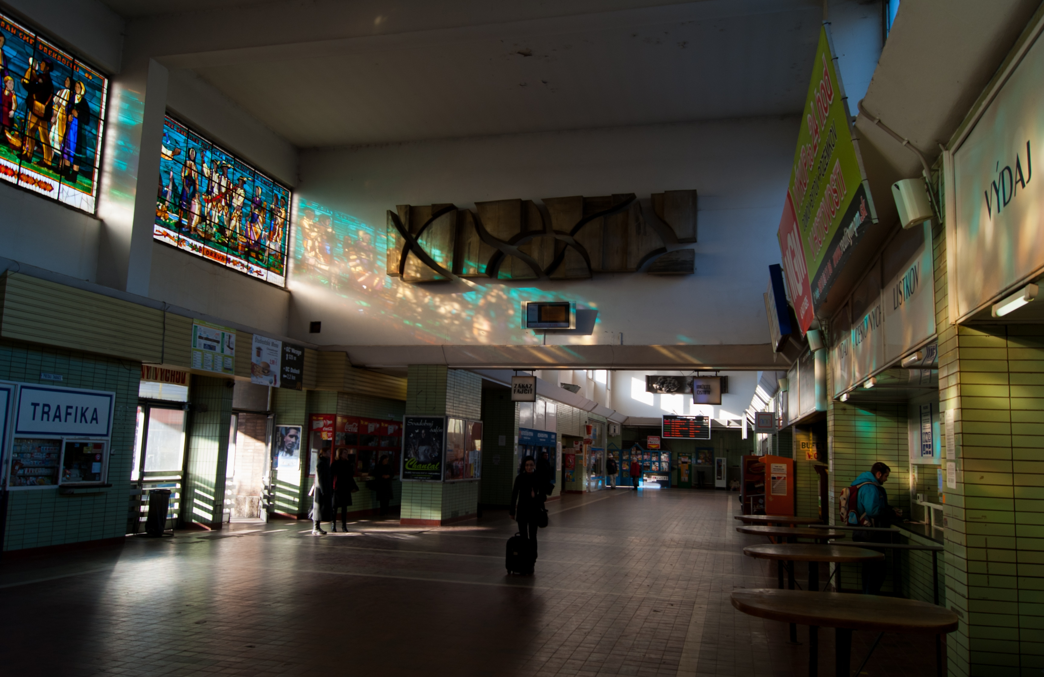 Stained glass windo in the train station of Žilina, SlovakiaSlovenčina: Reliéf na čelnej stene - autor Rudolf Uher.